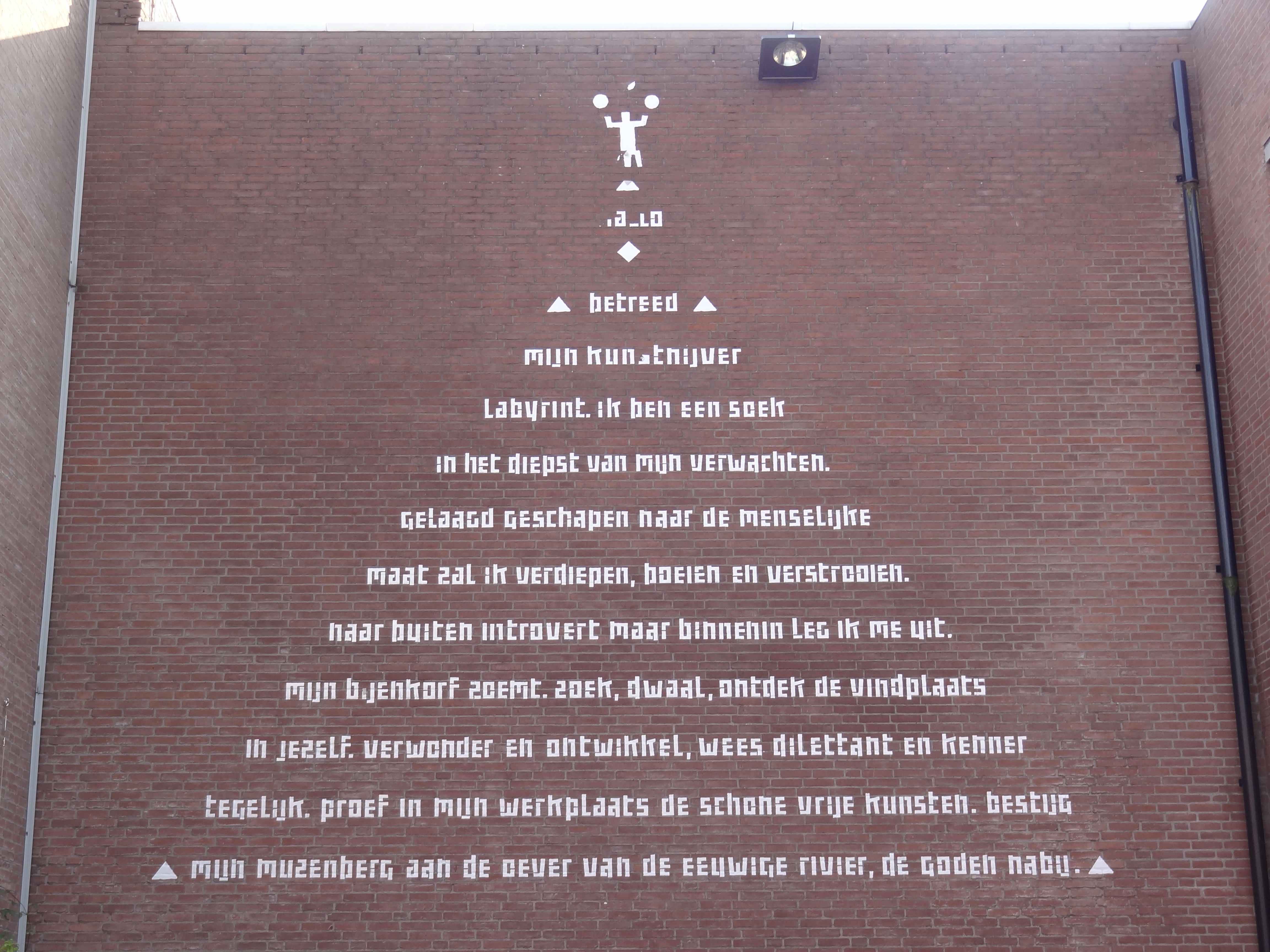 Poem "Hallo" (Hello) created by Victor Vroomkoning at the wall of De Lindenberg in Nijmegen, The Netherlands